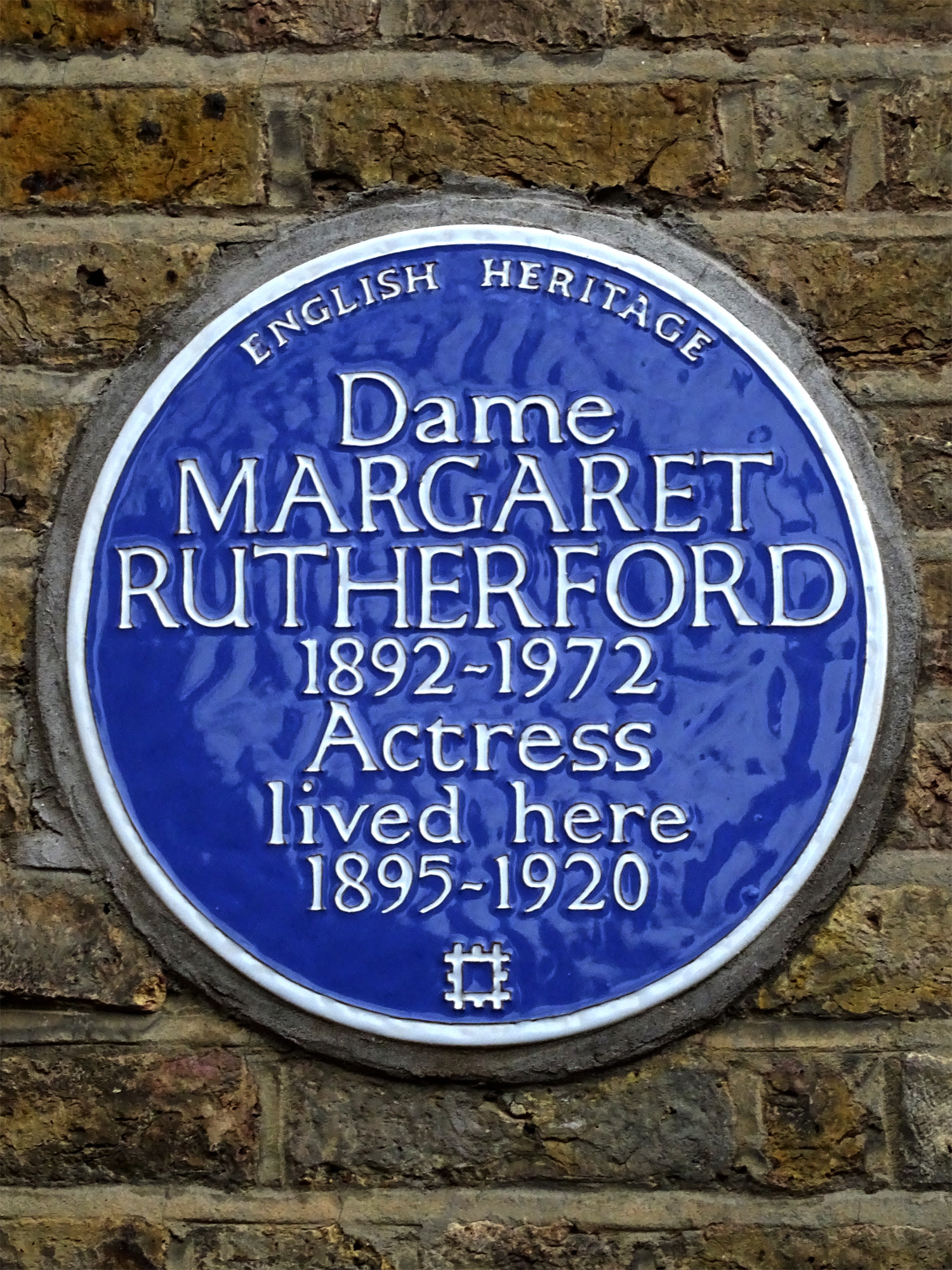 Blue plaque erected in 2002 by English Heritage at 4 Berkeley Place, Wimbledon, London SW19 4NN, London Borough of Merton